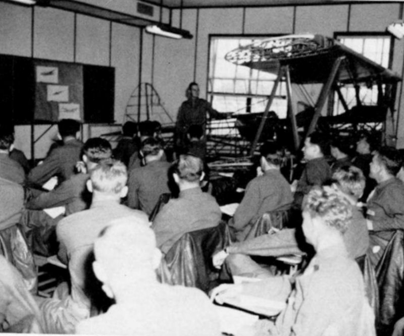 Thompson-Robbins Field - Ground Training Class